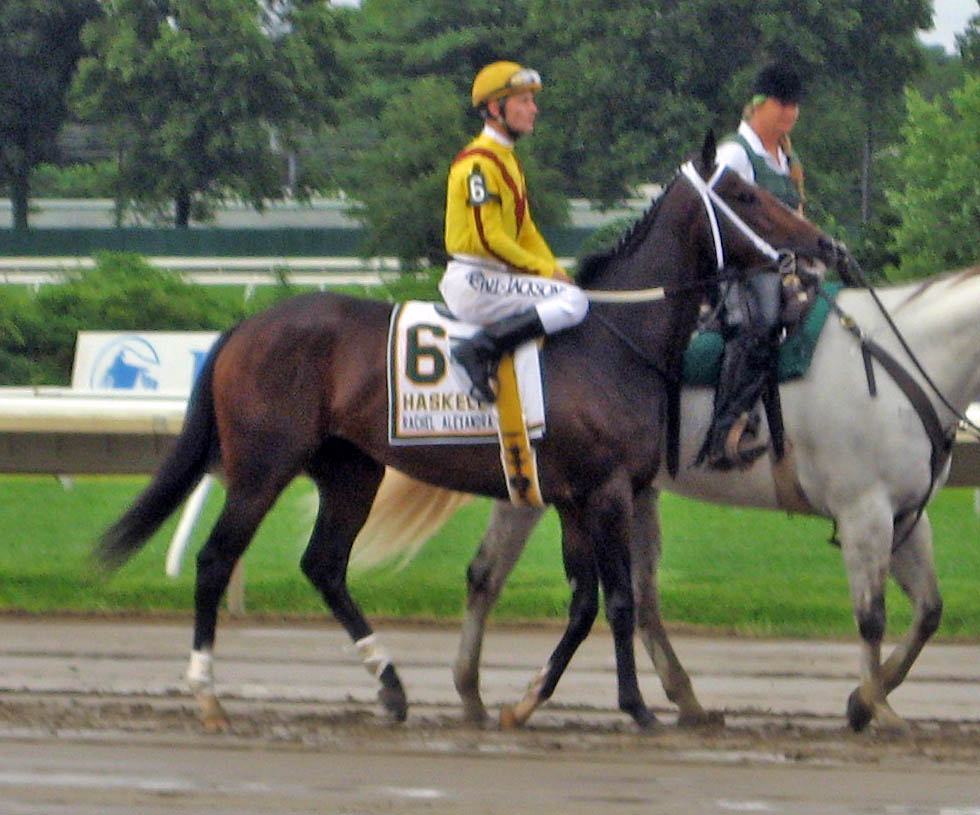 The horse Rachel Alexandra in post parade before Haskell Invitational